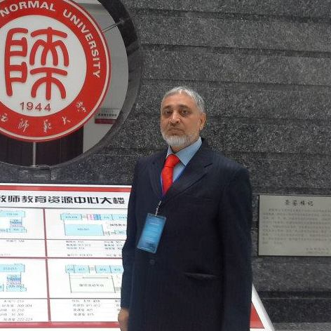 Subhan Qureshi during an international congress at Shaanxi Normal University, Xi'an, China پښتو: سبحان قريشي په شانسي نورمال پوهنتون، شيان، چين کې د يوې نړيوالې غونډې په مهال